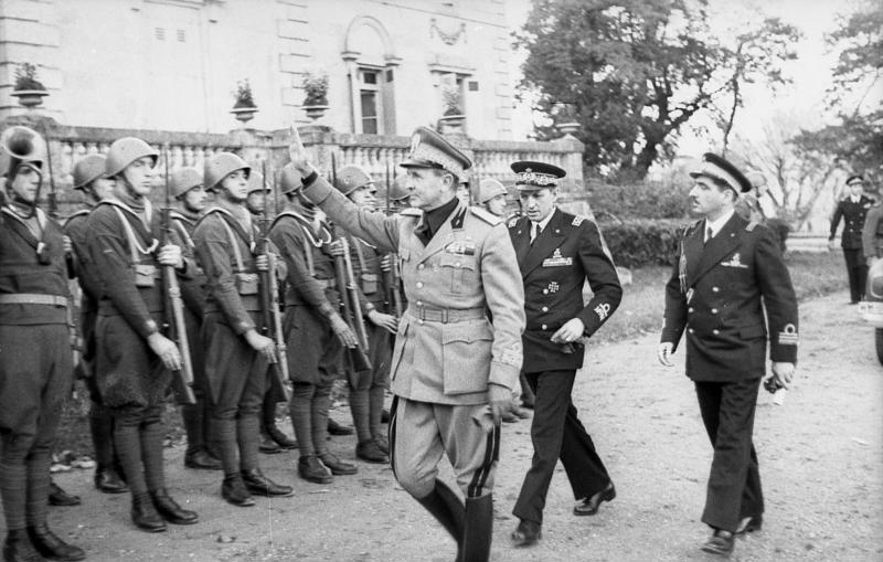 Information added by Wikimedia users.